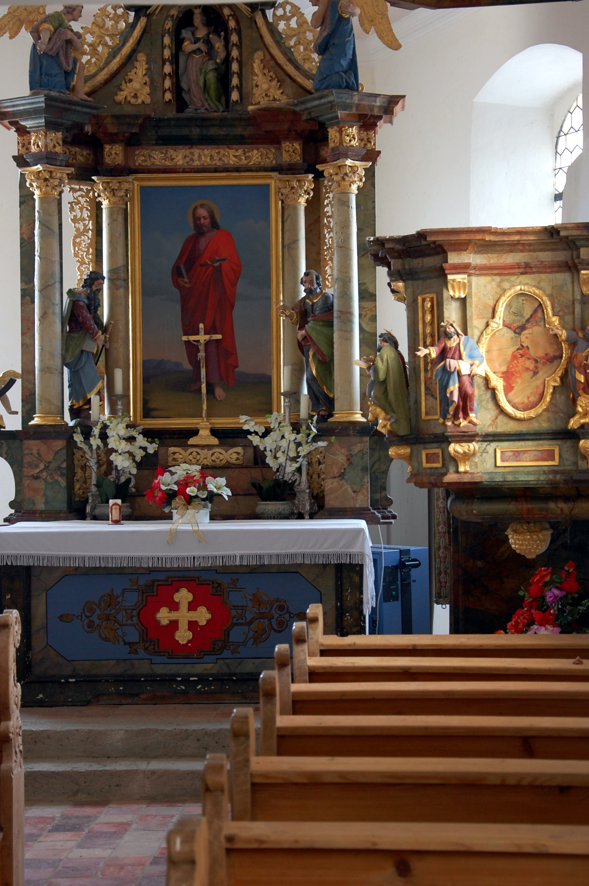 View to the Castle Chapel of Castle Rabeneck